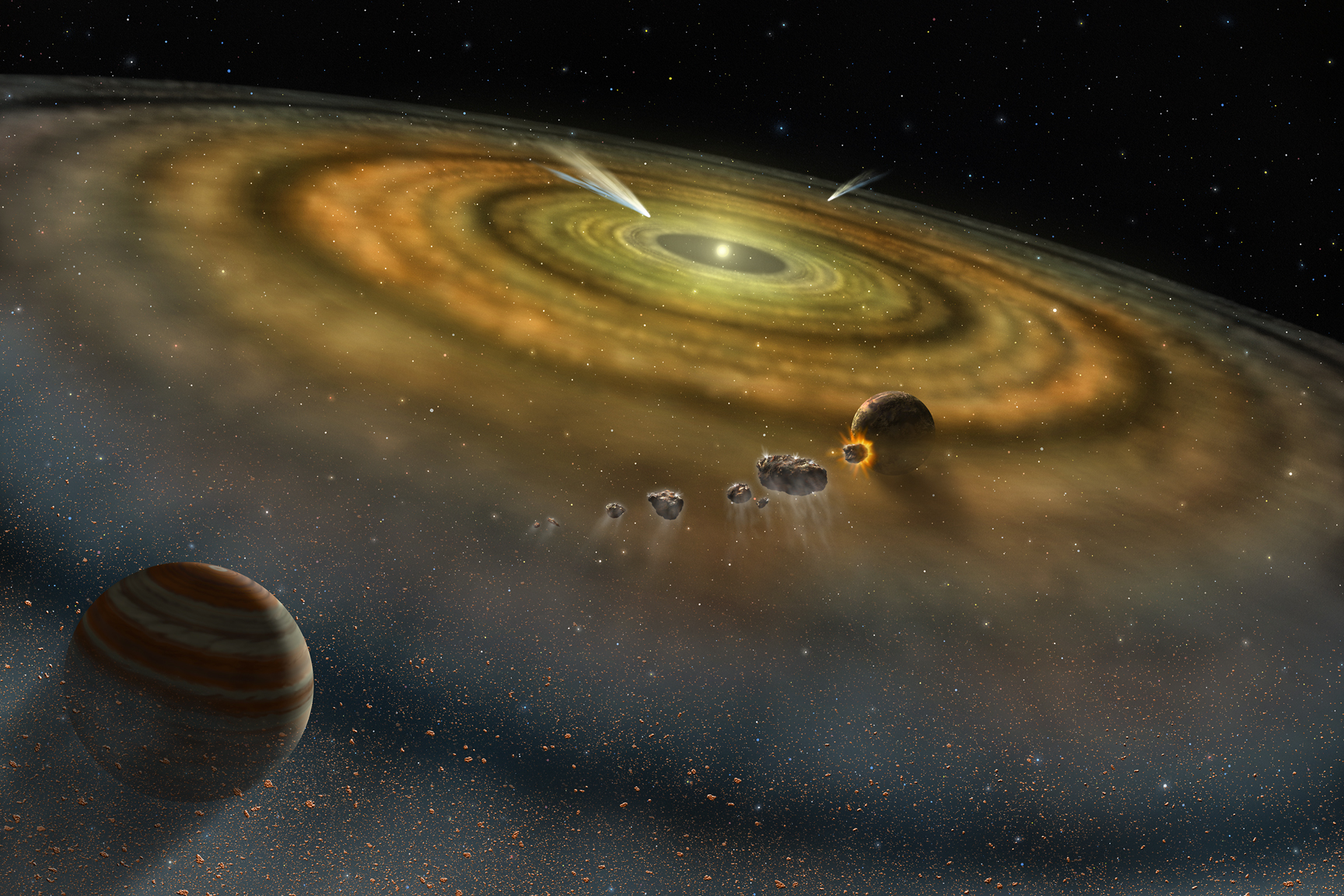 Artist's conception of the dust and gas surrounding a newly formed planetary system. In particular, that sorrounding the star Beta Pictoris.